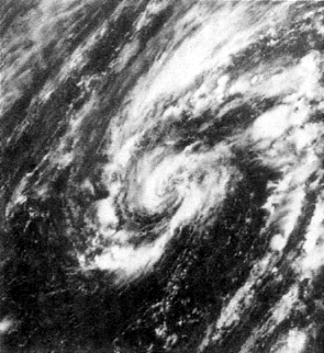 Unnamed Tropical Storm in North Central Pacific Ocean